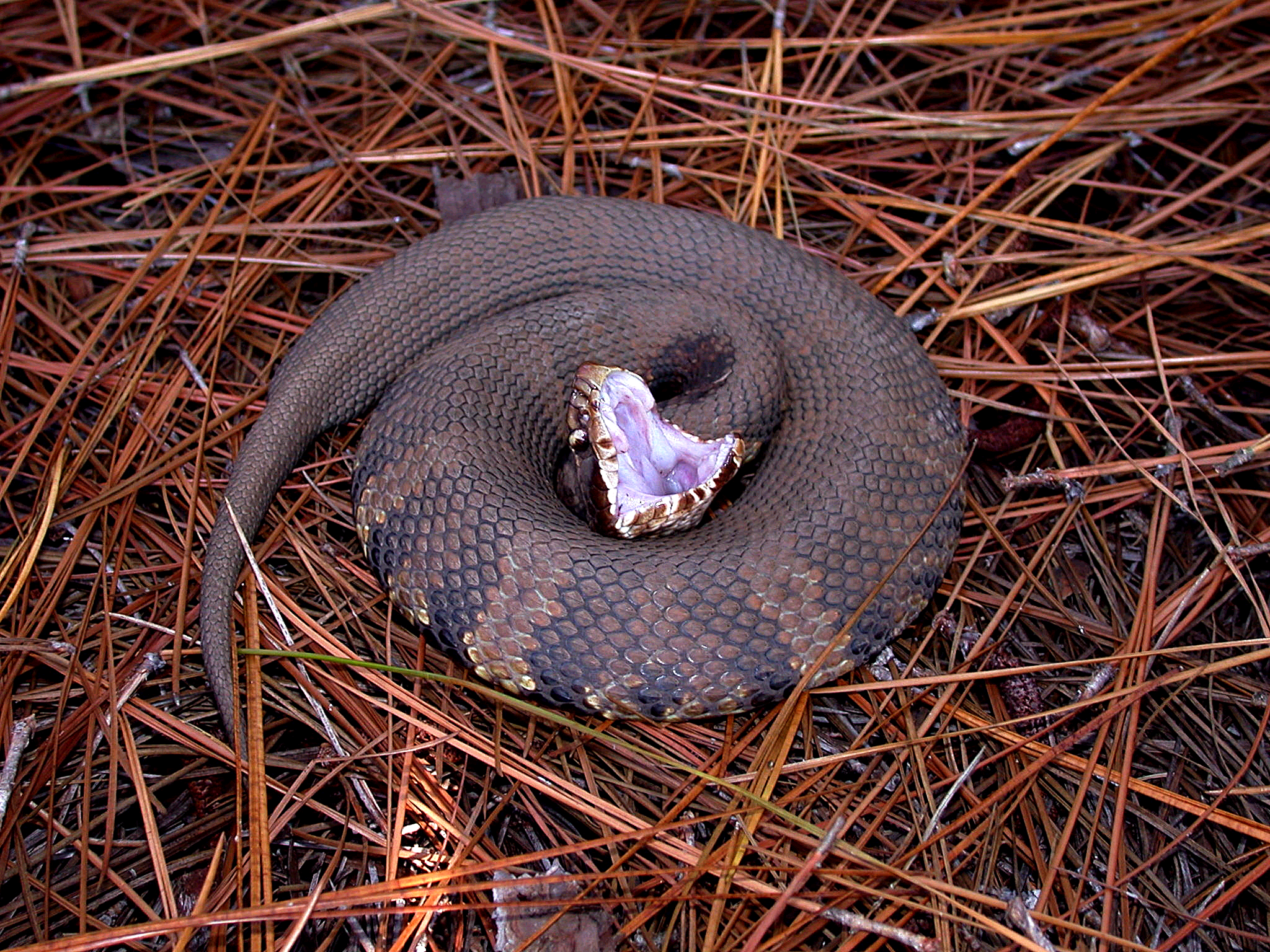 This 2005 photograph depicted an “eastern cottonmouth” snake, Agkistrodon p. piscivorus, as it was coiled atop a ground cover of pine needles. Startled, this snake had taken on a defensive posture, bearing its fangs in a very aggressive manner.